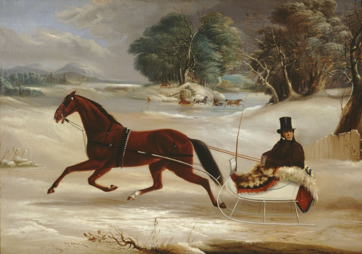 Judge Van Aernum in his Sleigh by Thomas Kirby Van Zandt. Signed center-left foreground: Van Zandt Albany / Feb 1855. From the Albany Institute of History & Art. See [1].